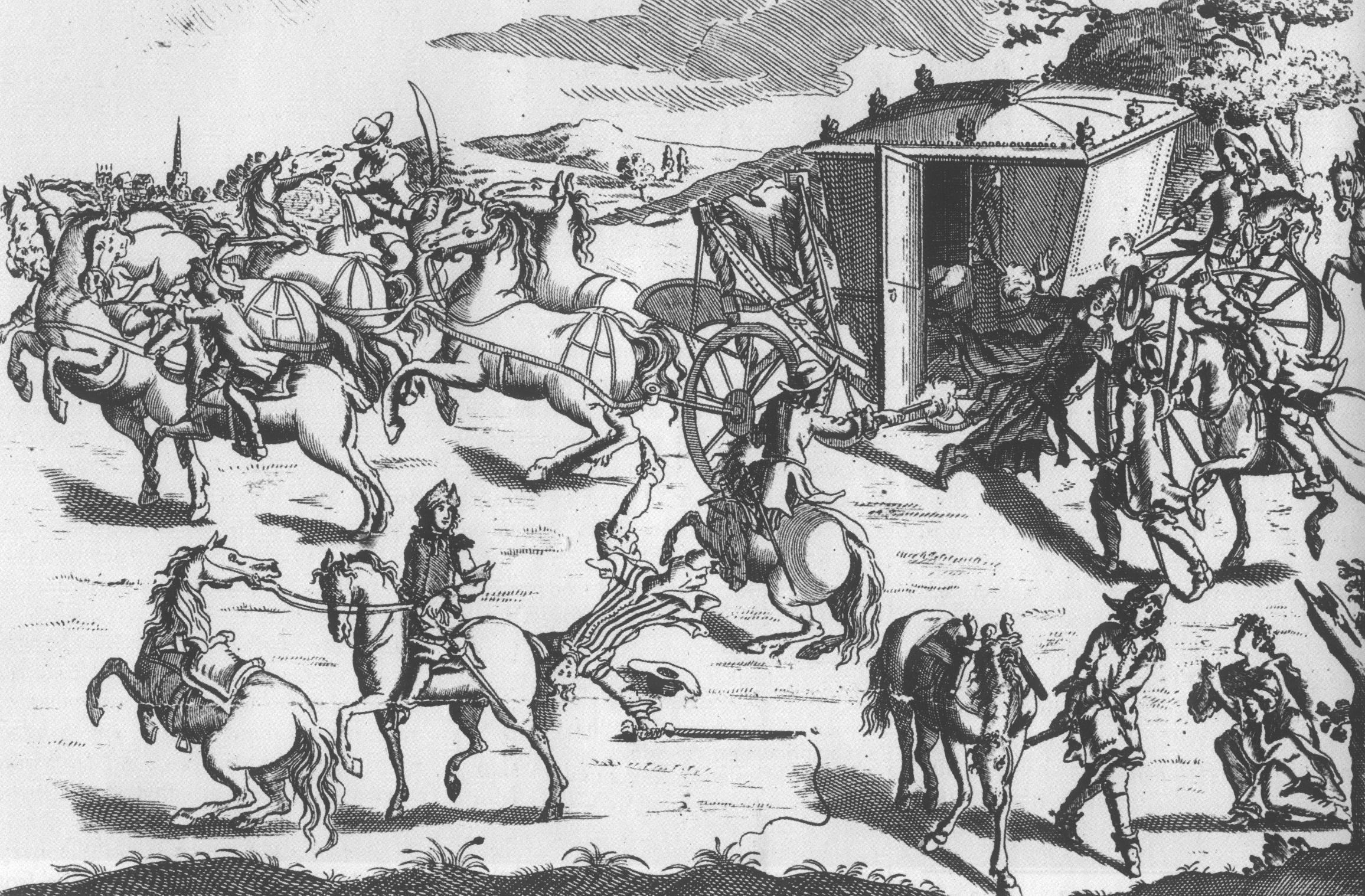 A print which appeared on a broadside entitled, 'The Manner of the Barbarous Murther of James, Late Lord Arch-Bishop Sharp of St. Andrews, Primate and Metropolitan of all Scotland, And one his Majesties most Honourable Privy-Council of that Kingdom; May 3. 1679.' Its accuracy is questionable.